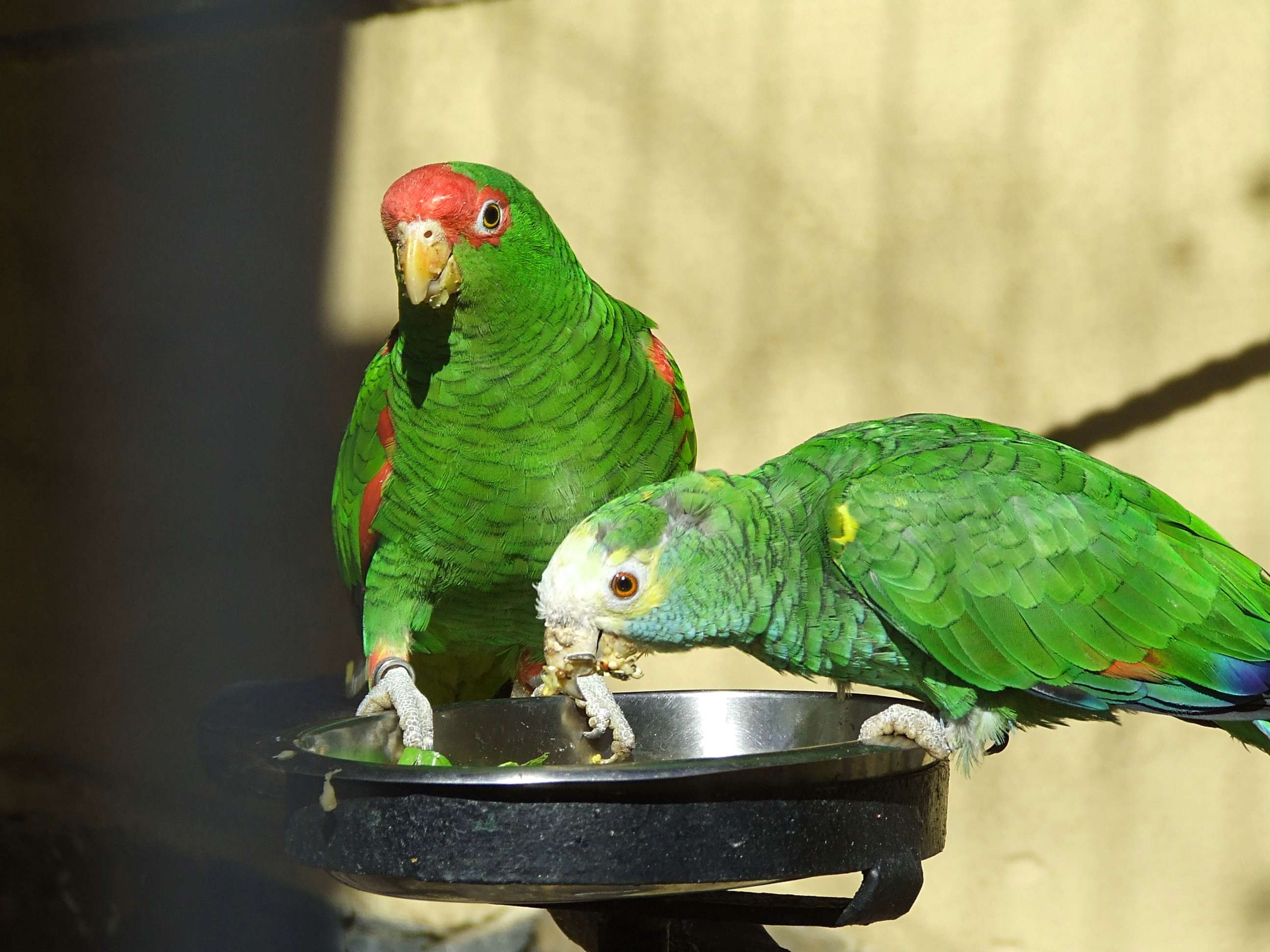 A Red-spectacled Amazon upright and a Yellow-faced Amazon eating at Palmitos Park, Gran Canaria, Spain.